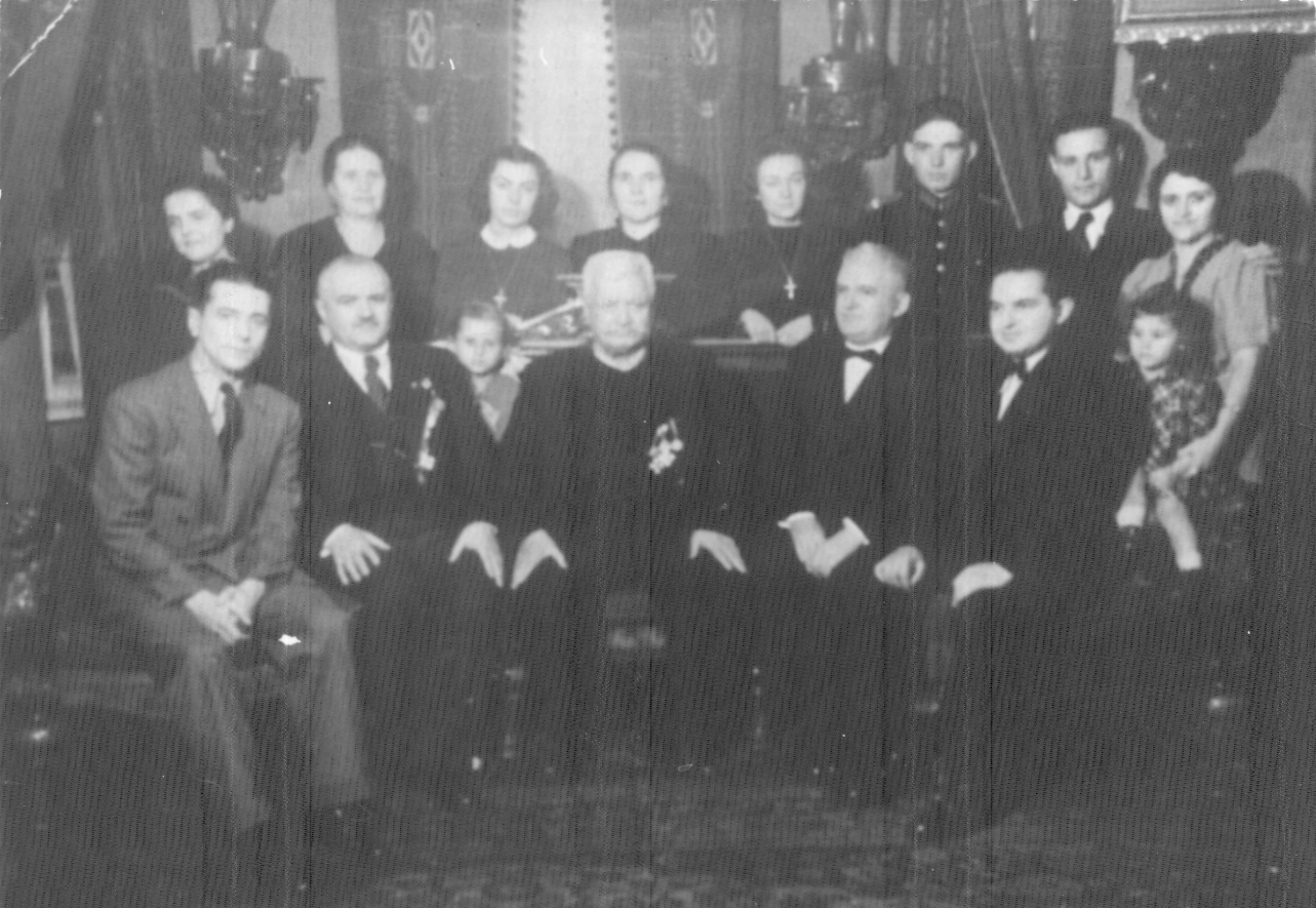 Avram Chalyovski with his family